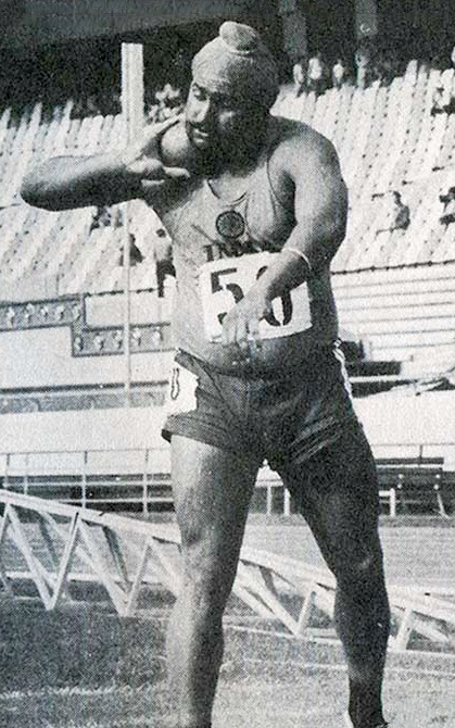 Bahadur Singh Chouhan at the 1974 Asian Games in Tehran